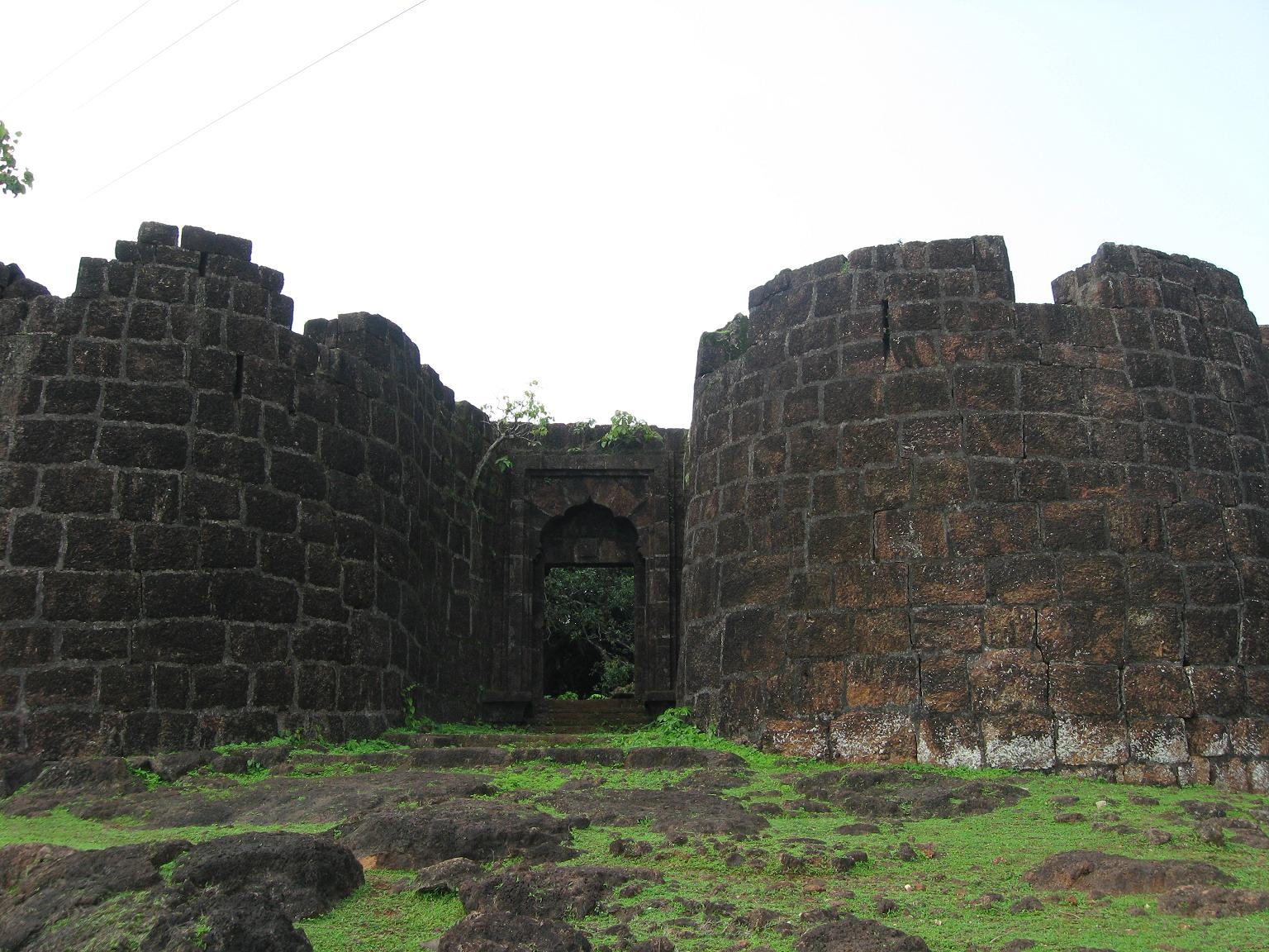 Bankot Fort or Fort Victoria or HimmatGad (also called MandarGiri / MandGor), situated at the north west corner of Ratnagiri district hence also of Mandangad taluka. The fort is situated atop a plateau on south bank of river Savitri where it meets the Arabian sea